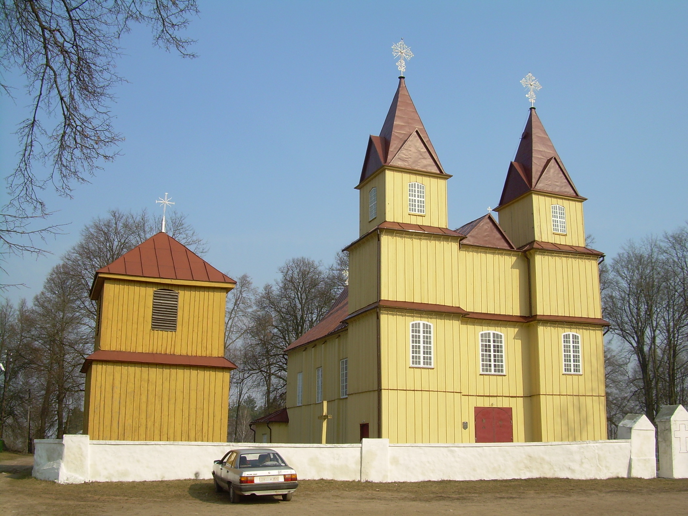 Беларуская (тарашкевіца): Касьцёл Марыі. в. Дуды This is a photo of Belarusian heritage monument. Reference number: 413Г000294 ( WLM)